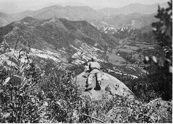 A US 1st Cavalry Division observation post overlooks Hill 518, held by the North Koreans north of Waegwan. September 1950, during the Korean War.